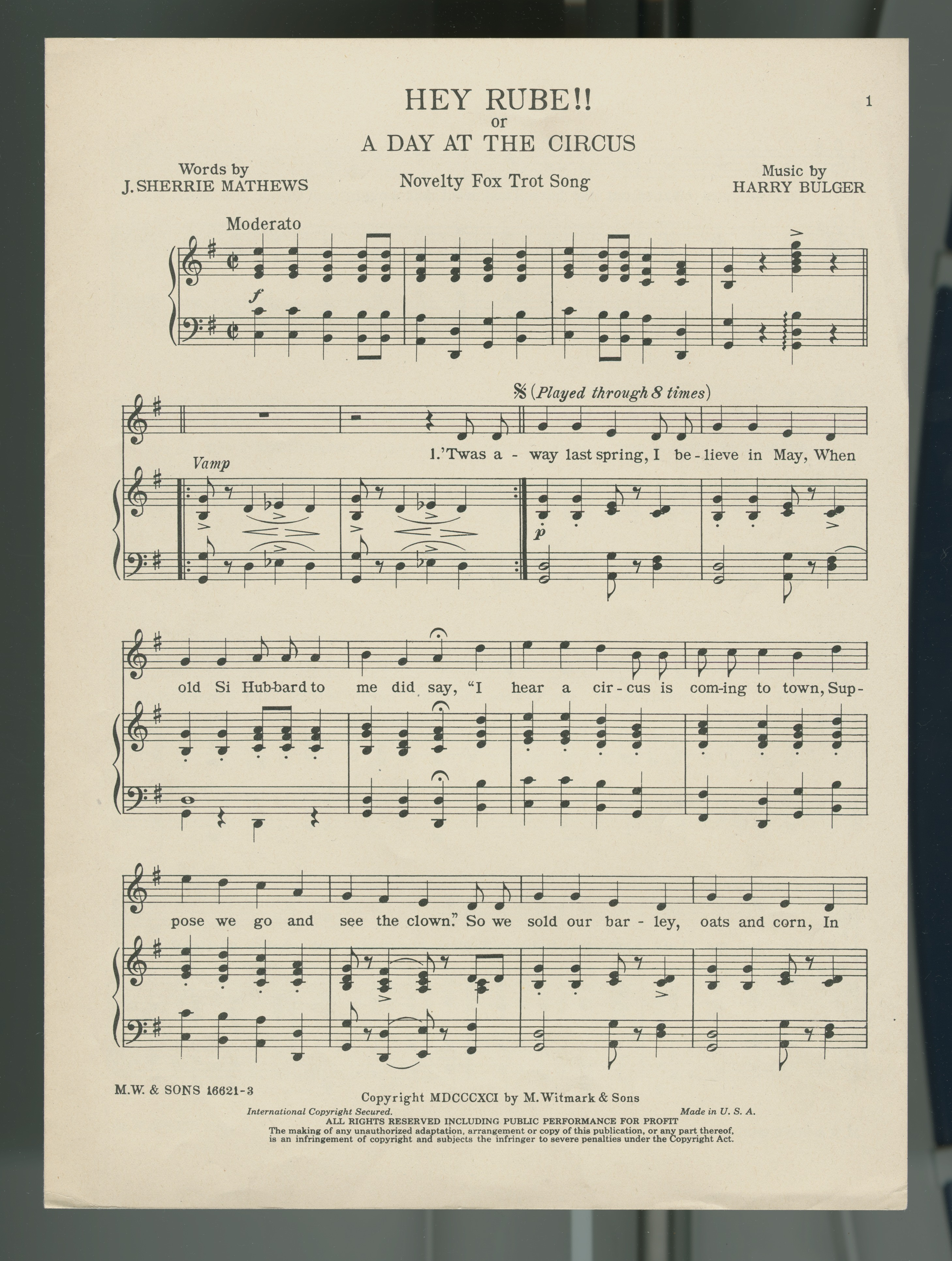 Lacking cover. Misprint: cue in music indicates text on page 2 but verses 2-8 are located on p. 4. Statement of responsibility : words by J. Sherrie Mathews ; music by Harry Bulger.